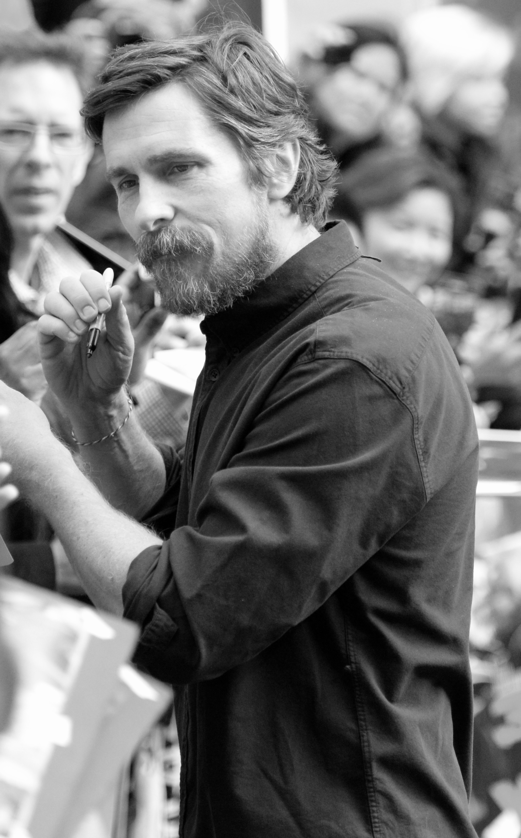 TIFF 2019 christian bale